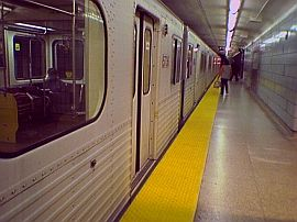 A train of the Toronto Subway pulling into St. Andrew Station on the University Line